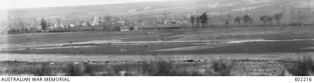 Part of the battlefield of Dernancourt, near Albert, showing the village and church held by the Germans, and the railway line on which the 4th Australian Division originally relieved parts of the 9th and 35th British Divisions.